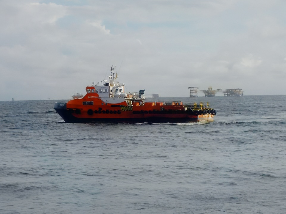 An example of a crewboat, used in Brunei, to transport people from and to offshore structures and ships.